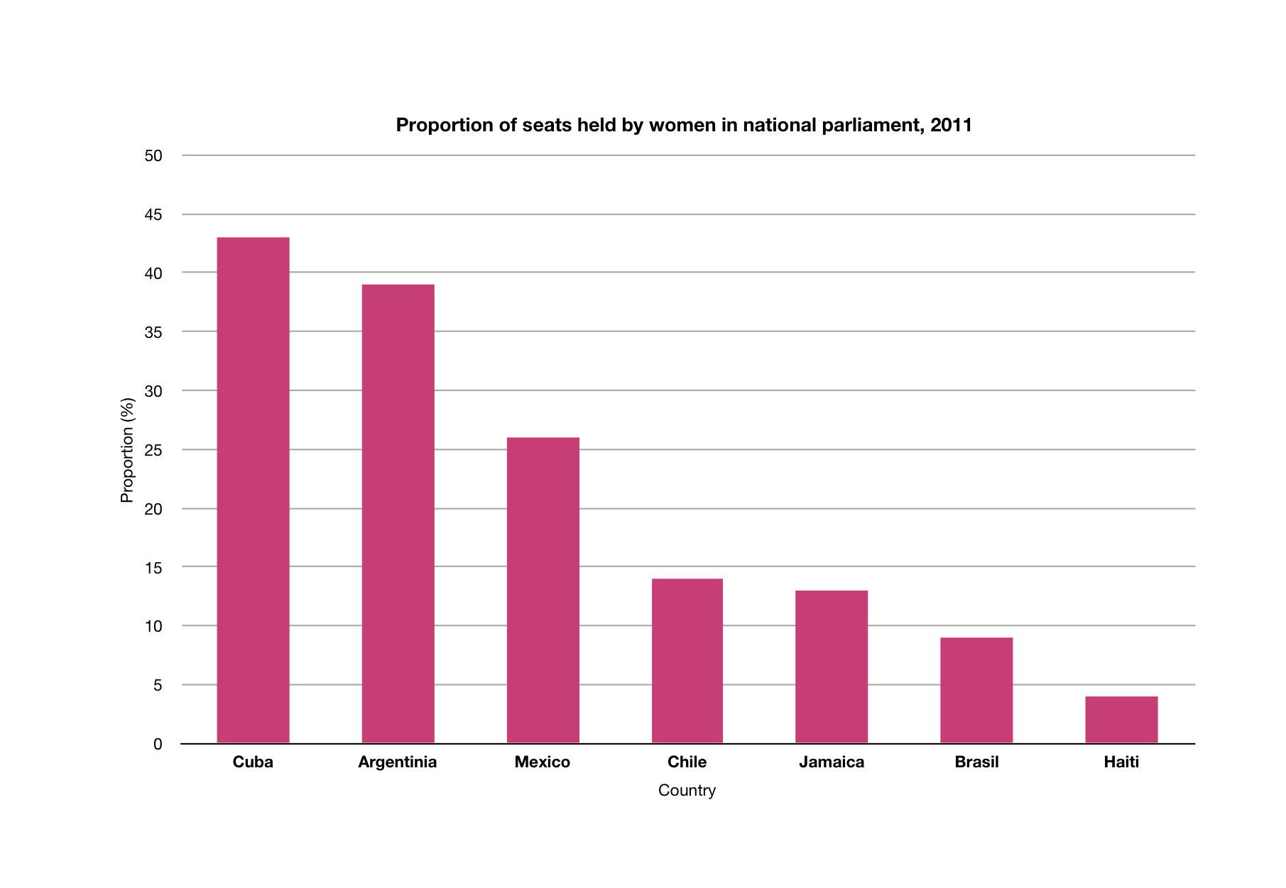 Proportion of seats held by women in national parliament. Selected countries of Latin America and the Caribbean in 2011. Source: CEPAL.